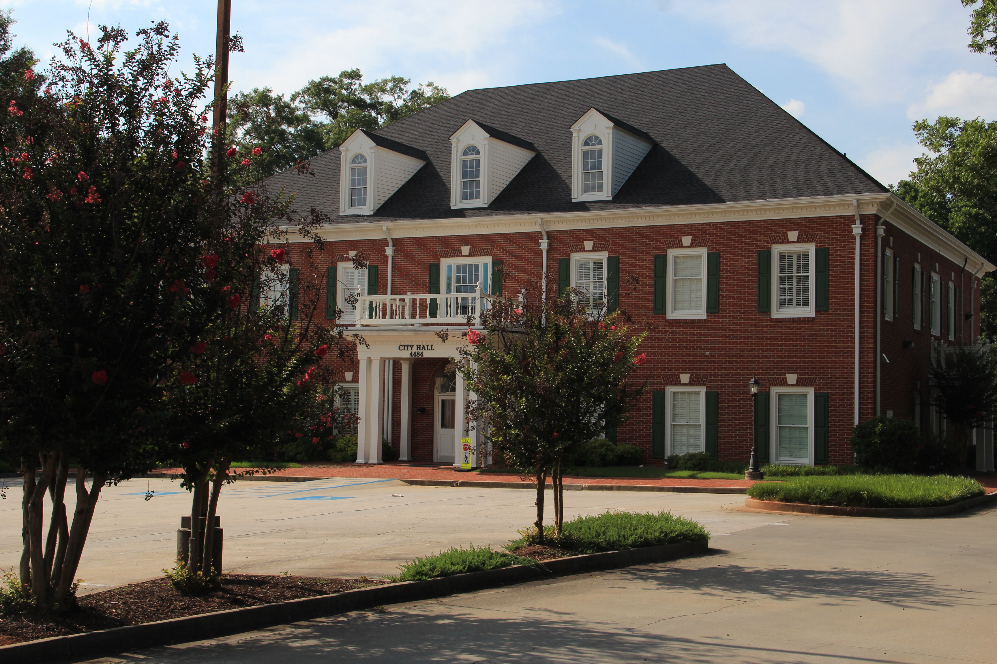 Powder Springs City Hall